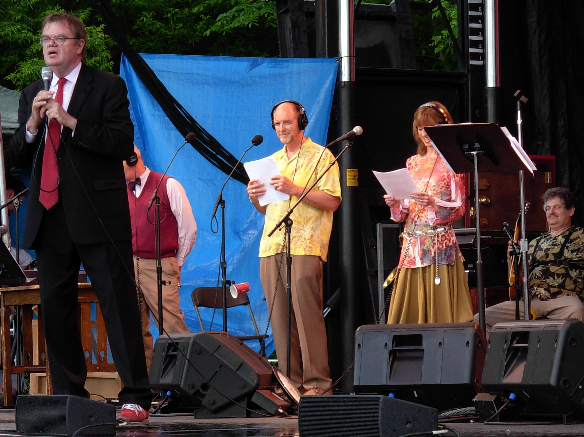 Garrison Keillor and cast members of A Prairie Home Companion radio show in Lanesboro, Minnesota.